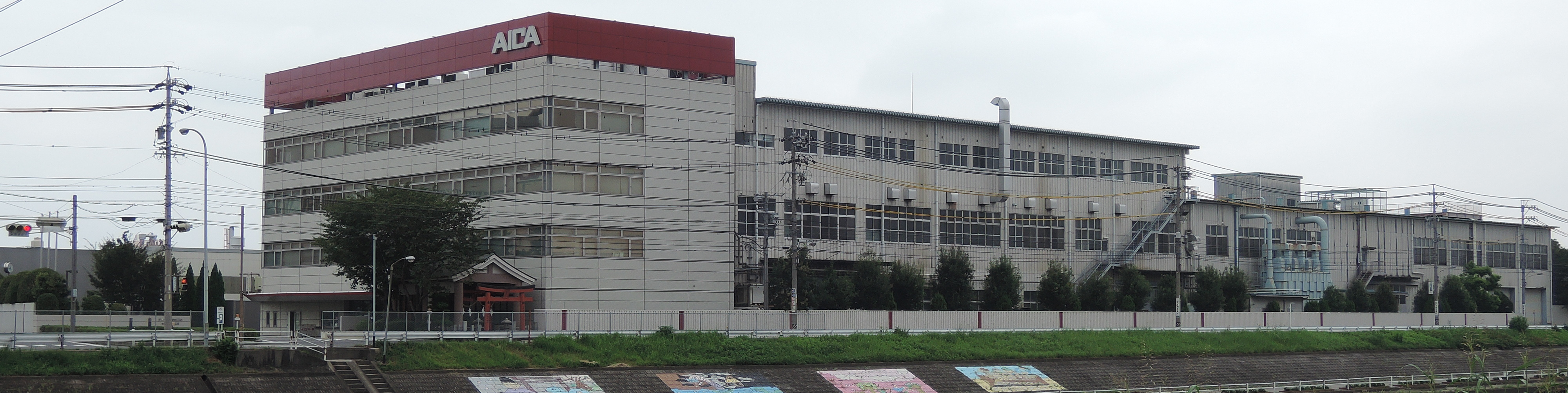 Headquarters of Aica Kogyo Company, Limited,Aichi prefecture,Japan